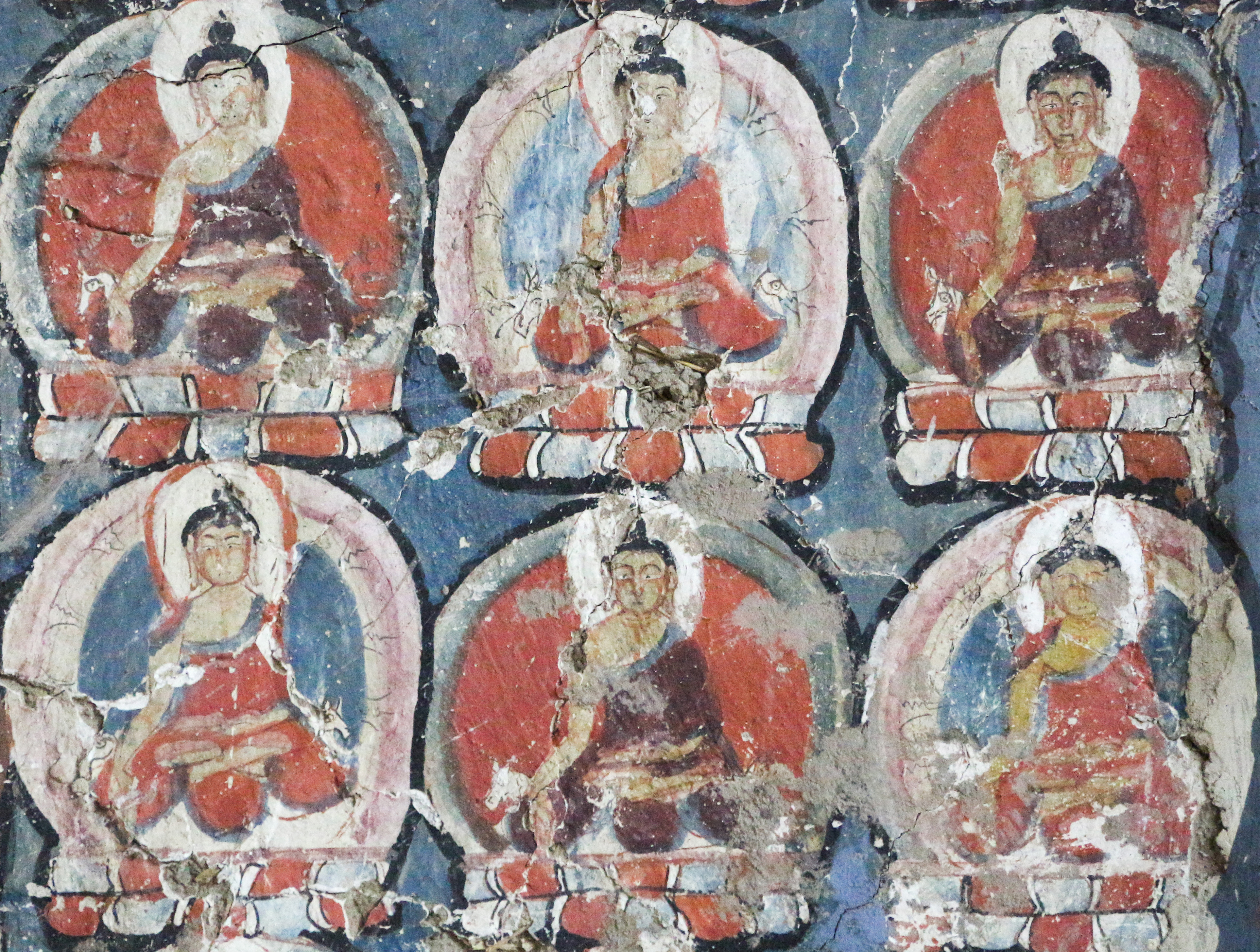 Fresco in Alchi Monastery, Ladakh, India